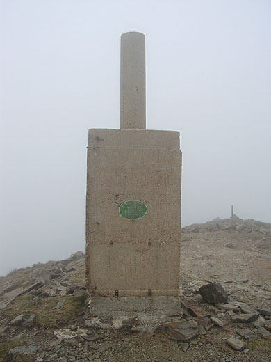 The triangulation pillar on top of El Turó de l'Home in Montseny, Spain. Photograph taken by myself in November 2004.